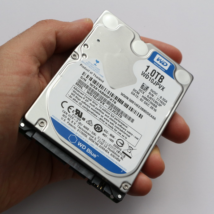 Western Digital WD10JPVX 1.0TB (WDBMYH0010BNC) laptop internal hard disk drive in my hand.